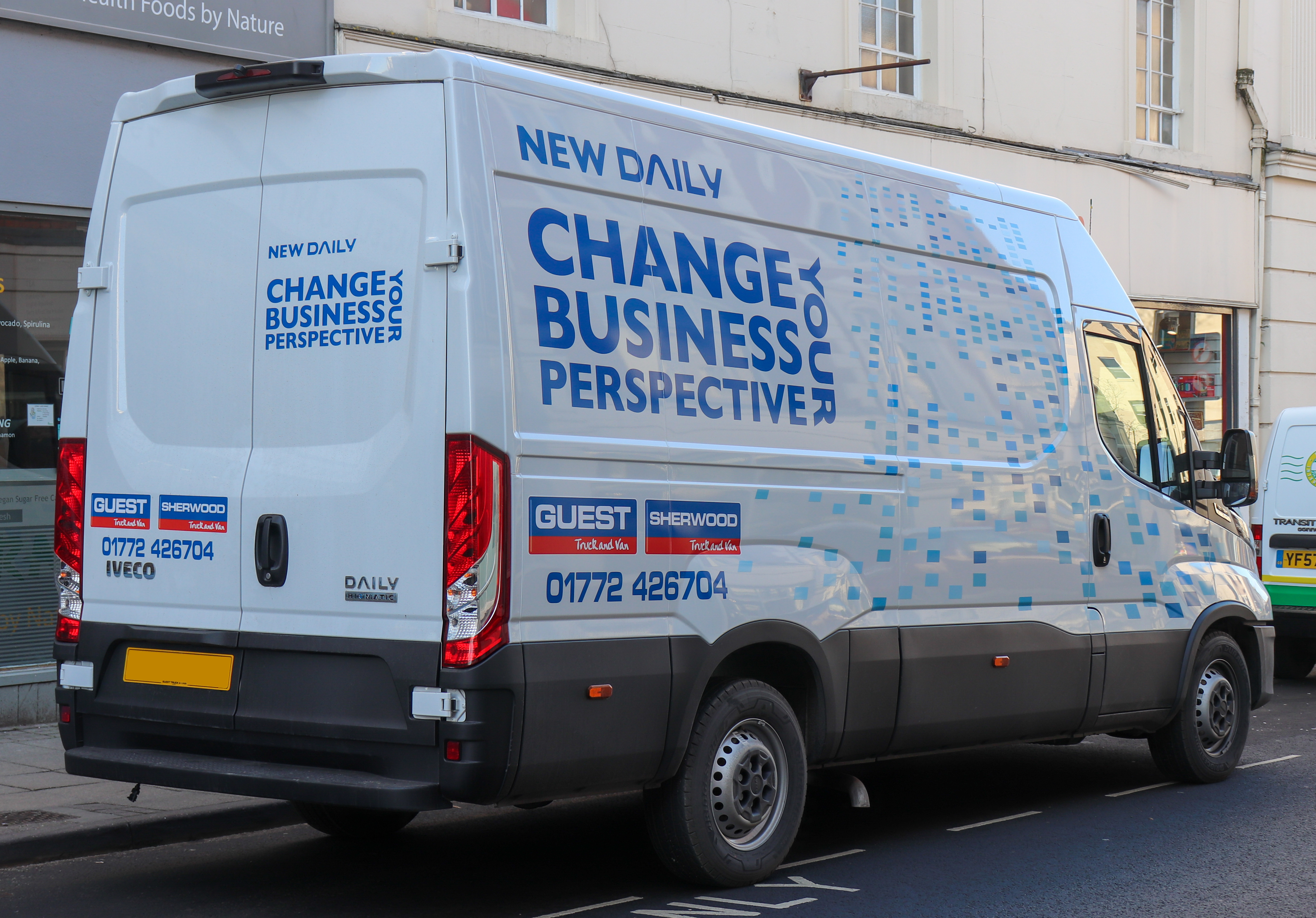 2020 Iveco Daily Hi-Matic 2.3 Rear Taken in Leamington Spa